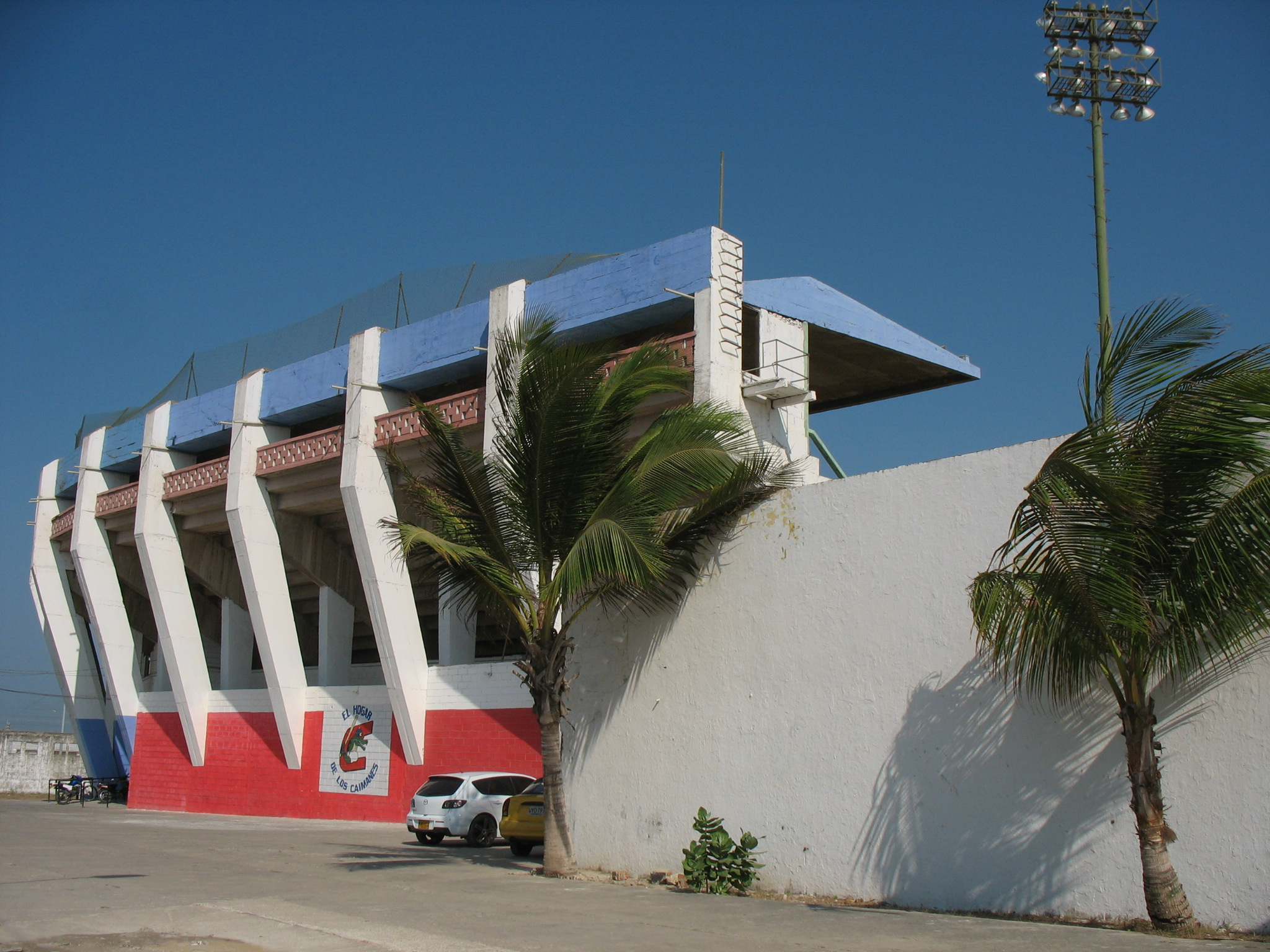 Tomás Arrieta stadium exterior